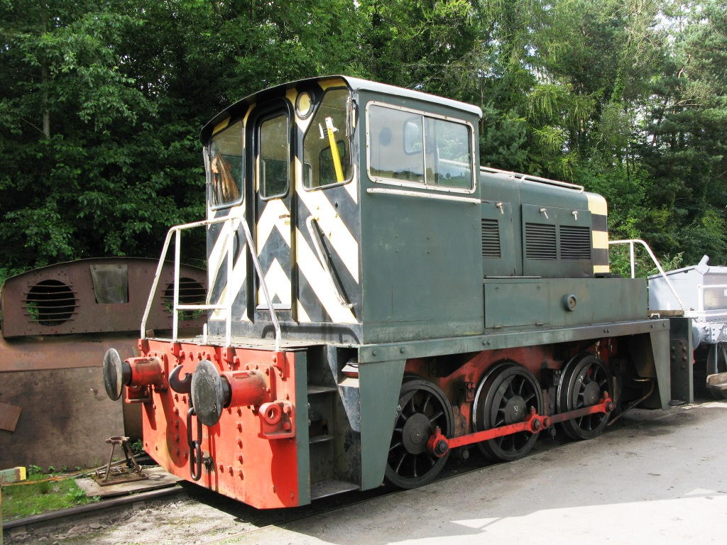 A Yorkshire Engine Company diesel-electric locomotive known locally as "Yorkie" at Buckfastleigh on the South Devon Railway, England.